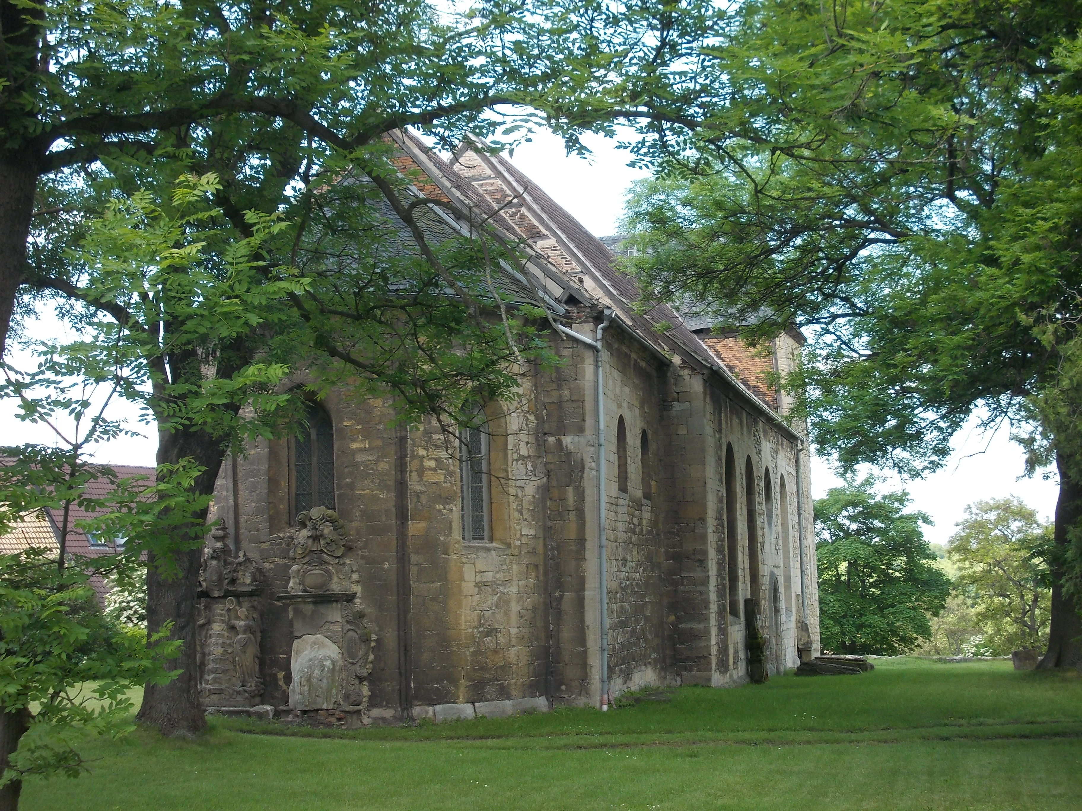 St. John the Baptist church, Schraplau (district: Saalekreis, Saxony-Anhalt)